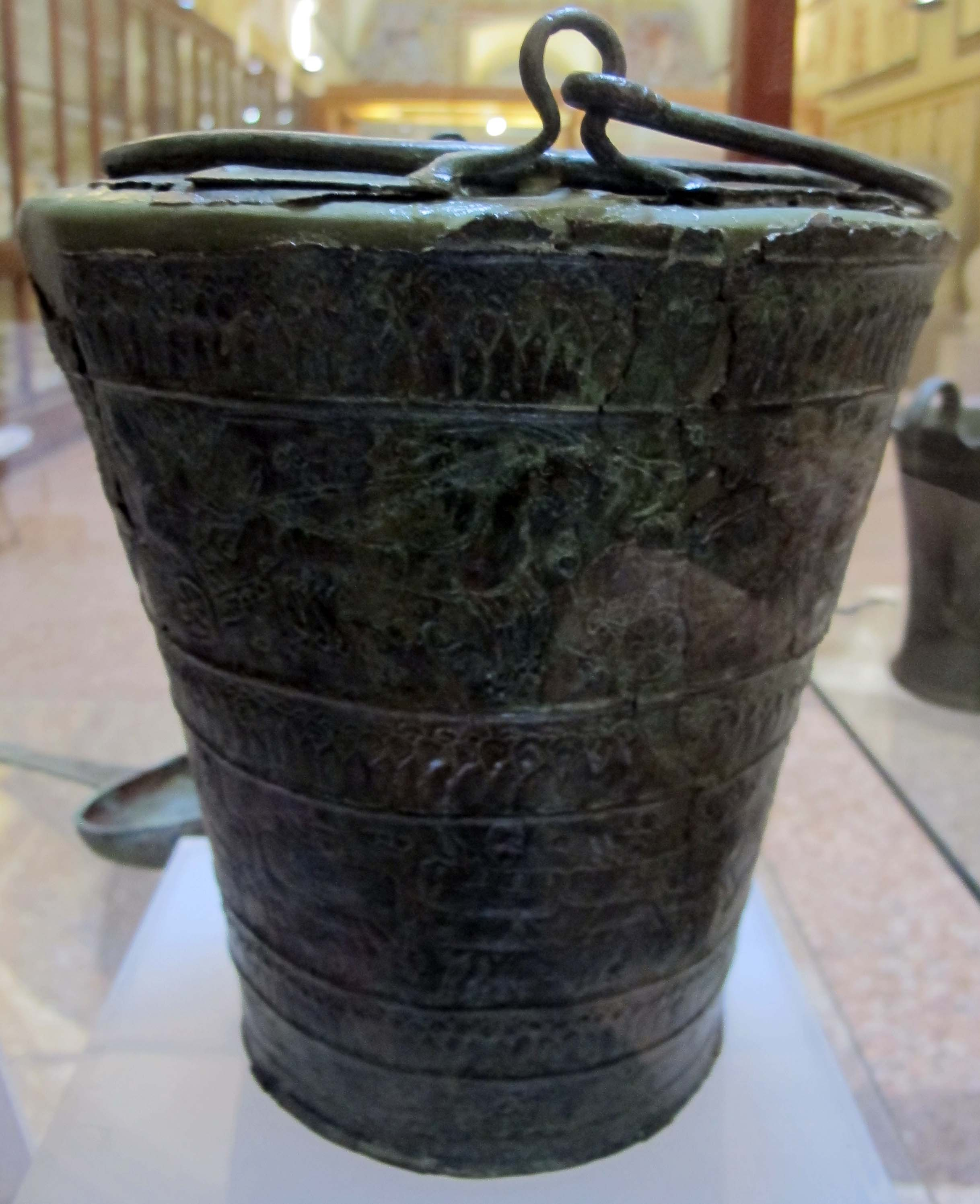 Etruscan antiquities in the Archeological Museum of Bologna